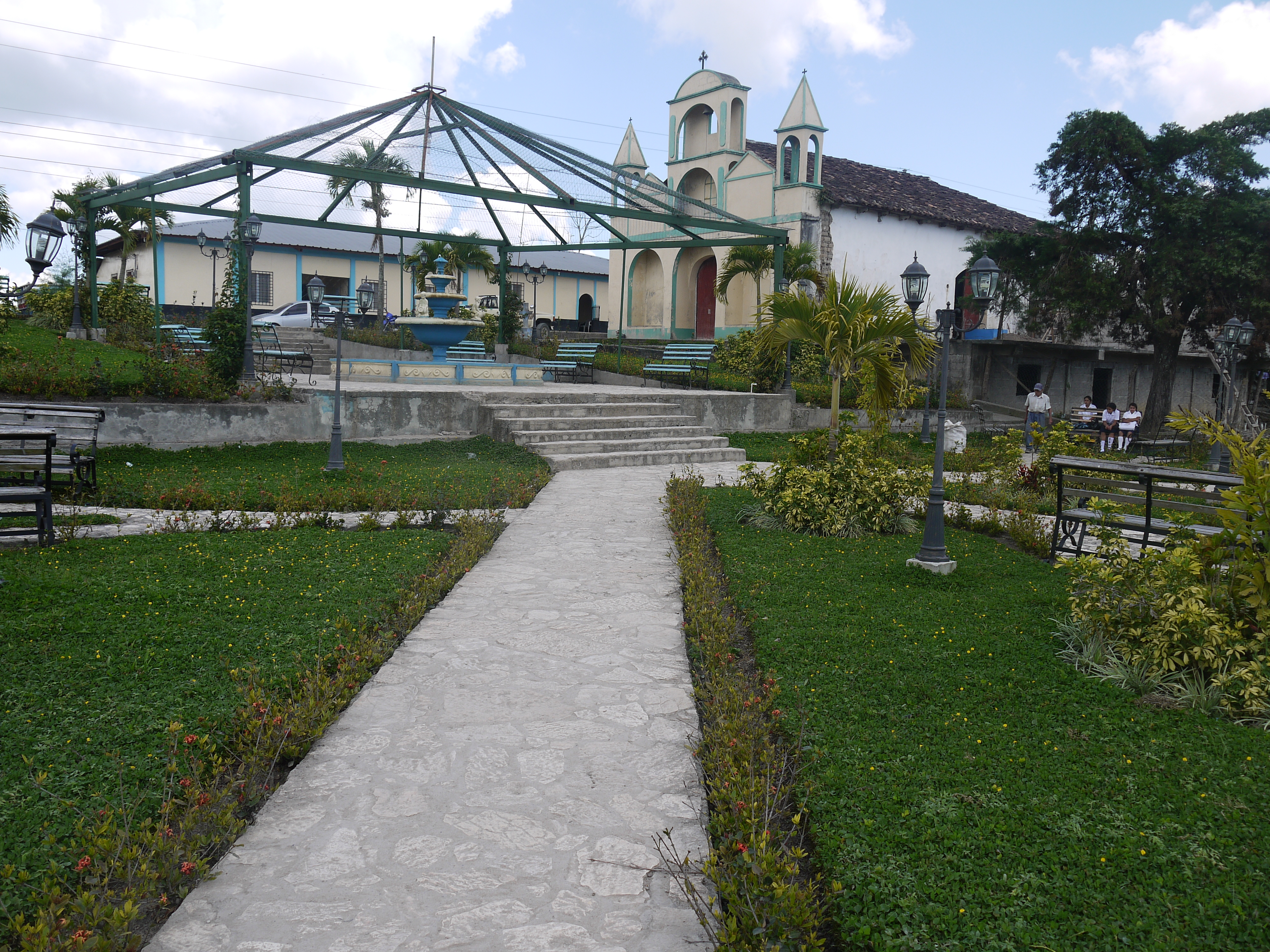 View of the Central Park in Proteccion, Santa Barabara, Honduras. The municipal building is in the background.